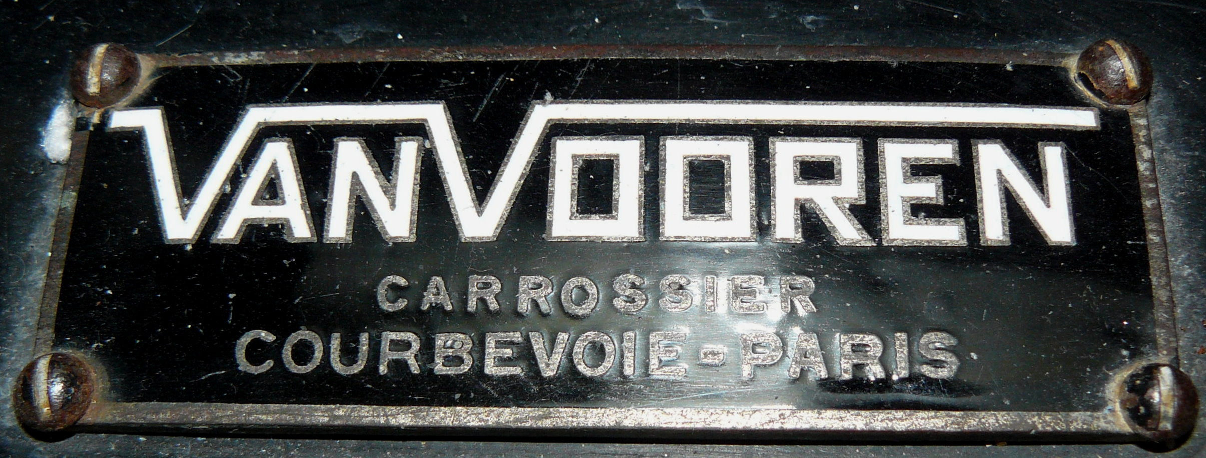 Vanvooren Badge 1934